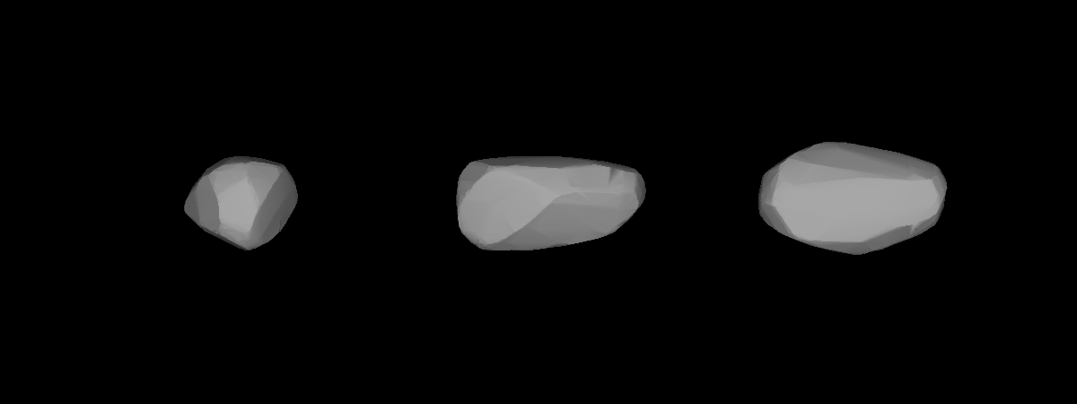 A three-dimensional model of 1333 Cevenola that was computed using light curve inversion techniques.